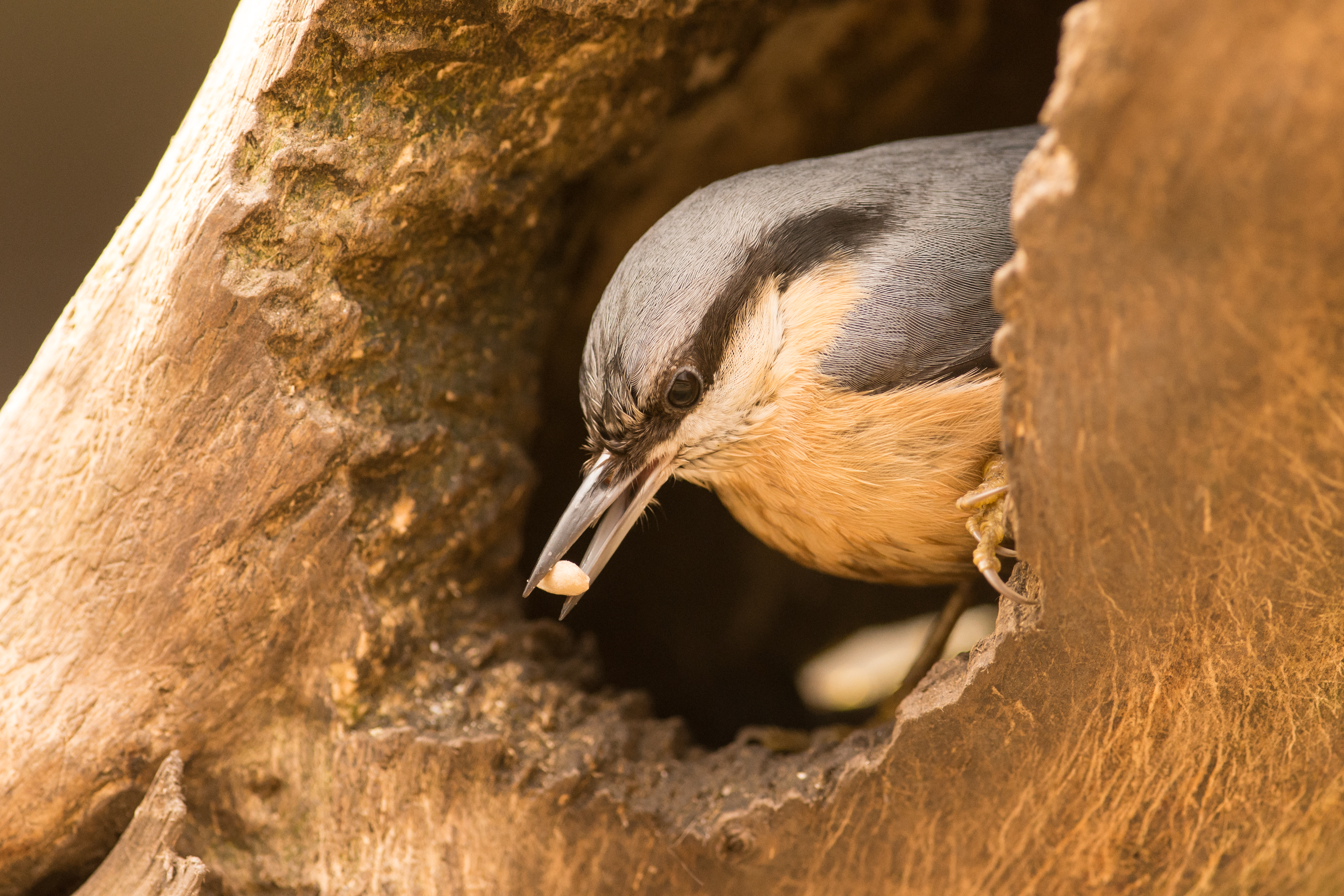 Nuthatch (Sitta europaea)